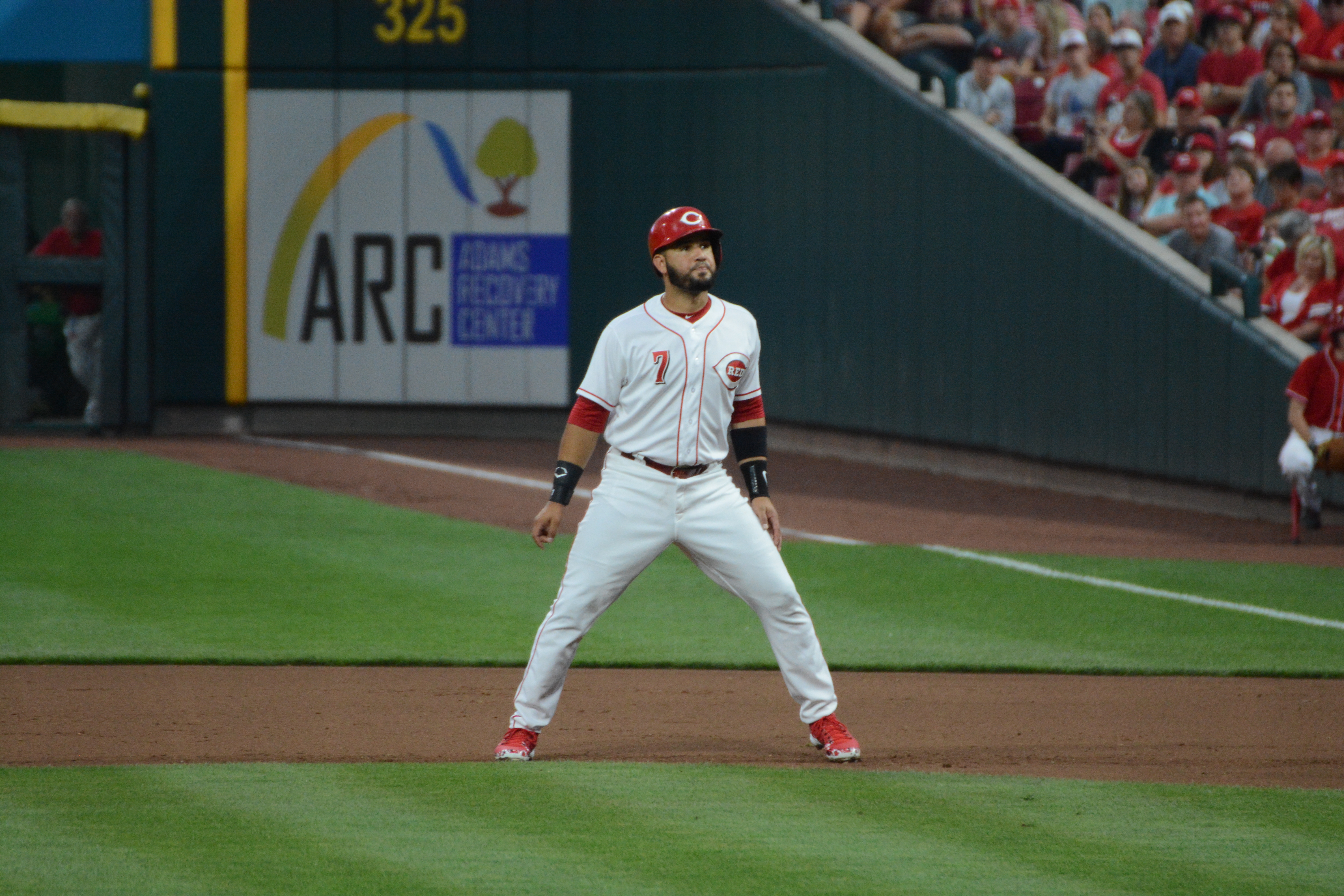 Taken at a baseball game between the Cincinnati Reds and the Arizona Diamondbacks on August 11, 2018 at Great American Ball Park in Cincinnati, Ohio.